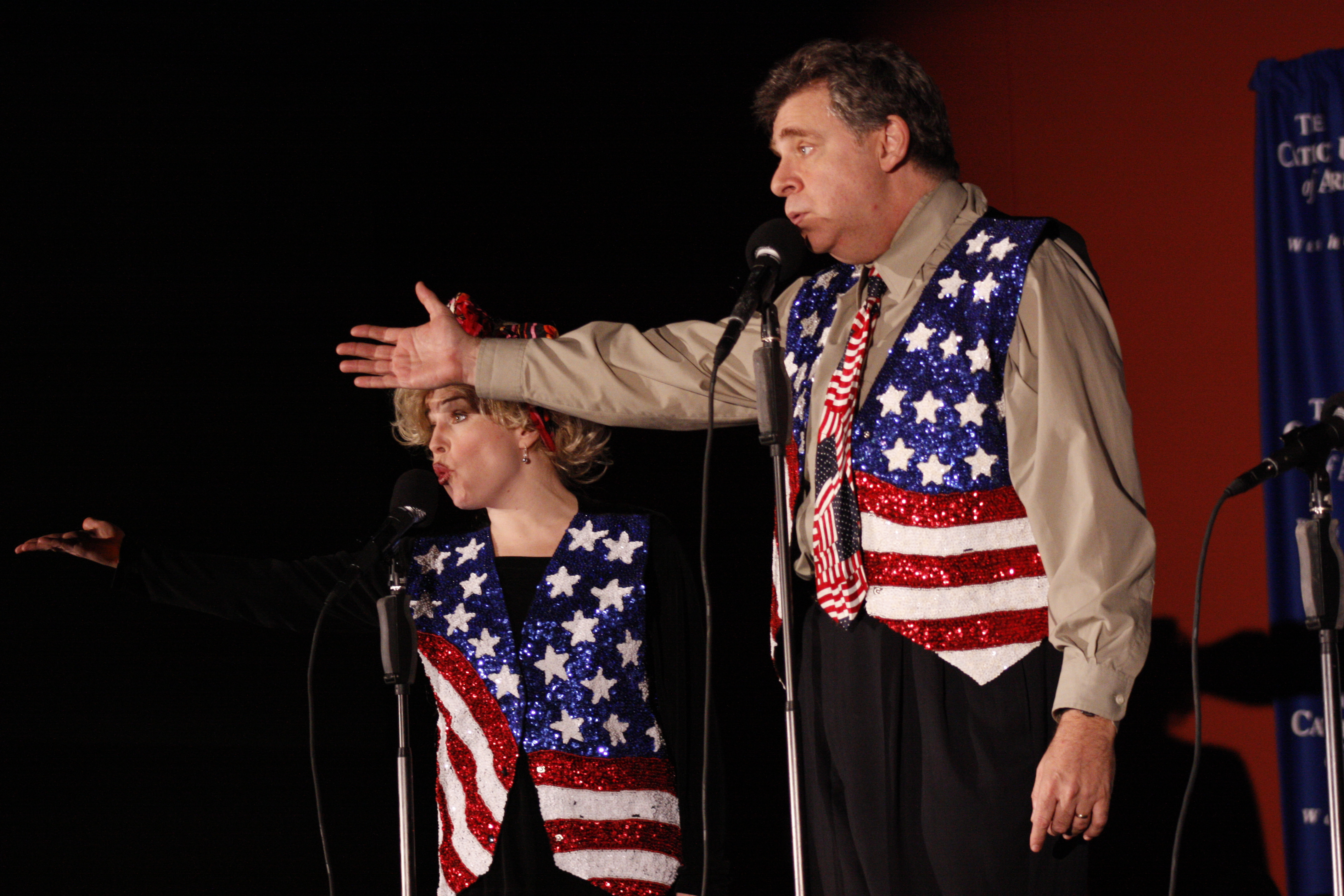 The Capitol Steps Perform at CUA Photo by Ryan J. Reilly / The Tower